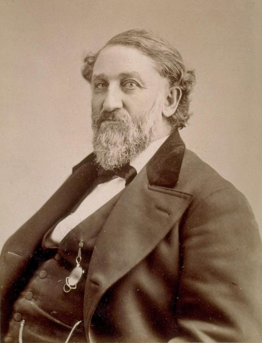 Frank M. Pixley, member of the Michigan State Supreme Court, later Attorney General of California and founder of the literary journal The Argonaut.